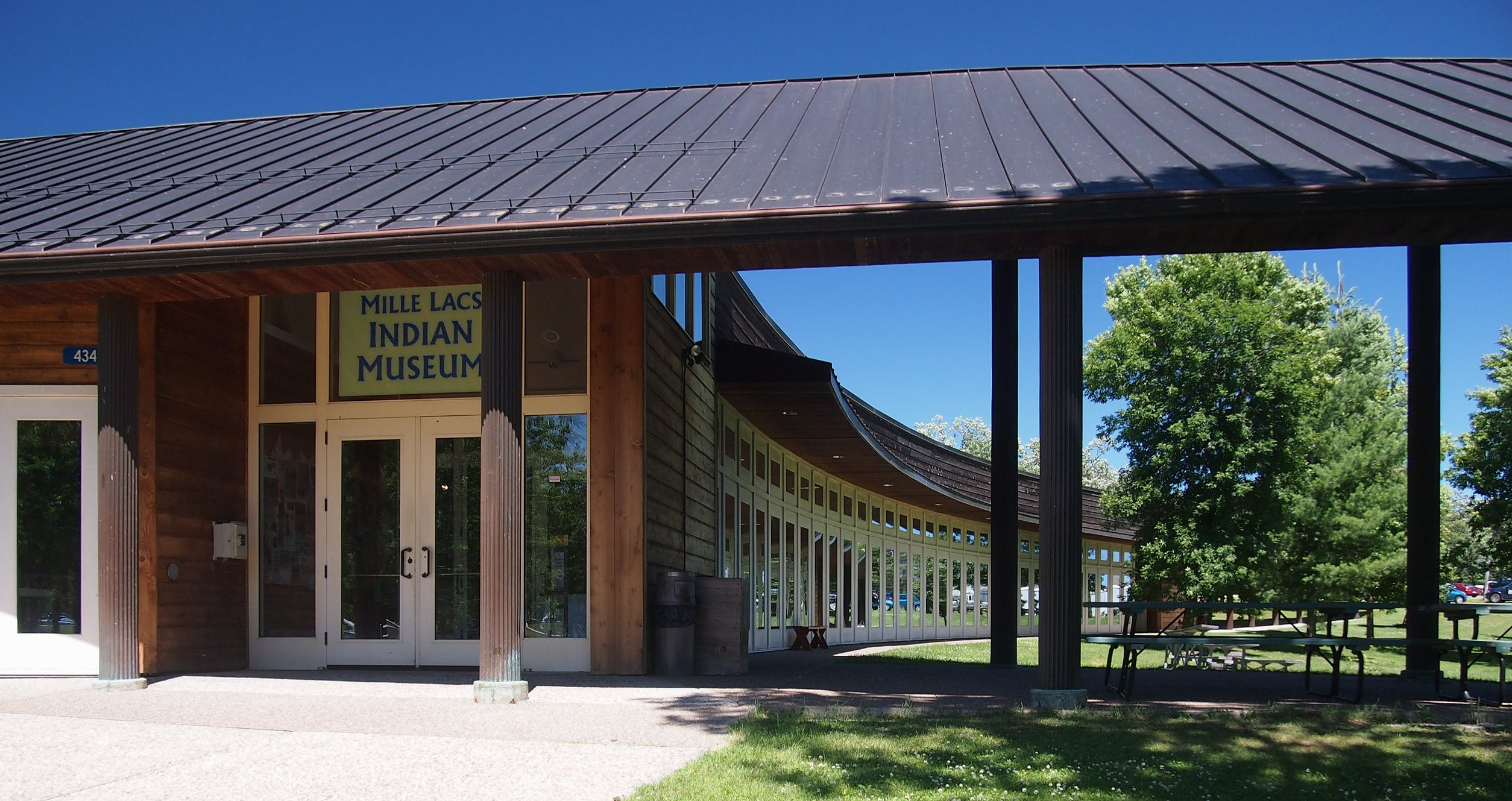 Mille Lacs Indian Museum, 43411 Oodena Dr, Onamia, Minnesota, USA. Viewed from the southwest.